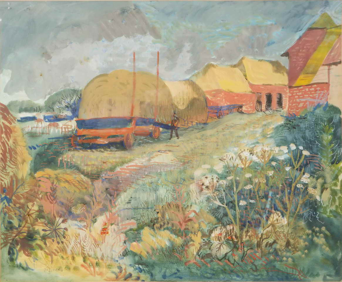 Farmyard Scene, Hampshire, gouache, ca 1952.